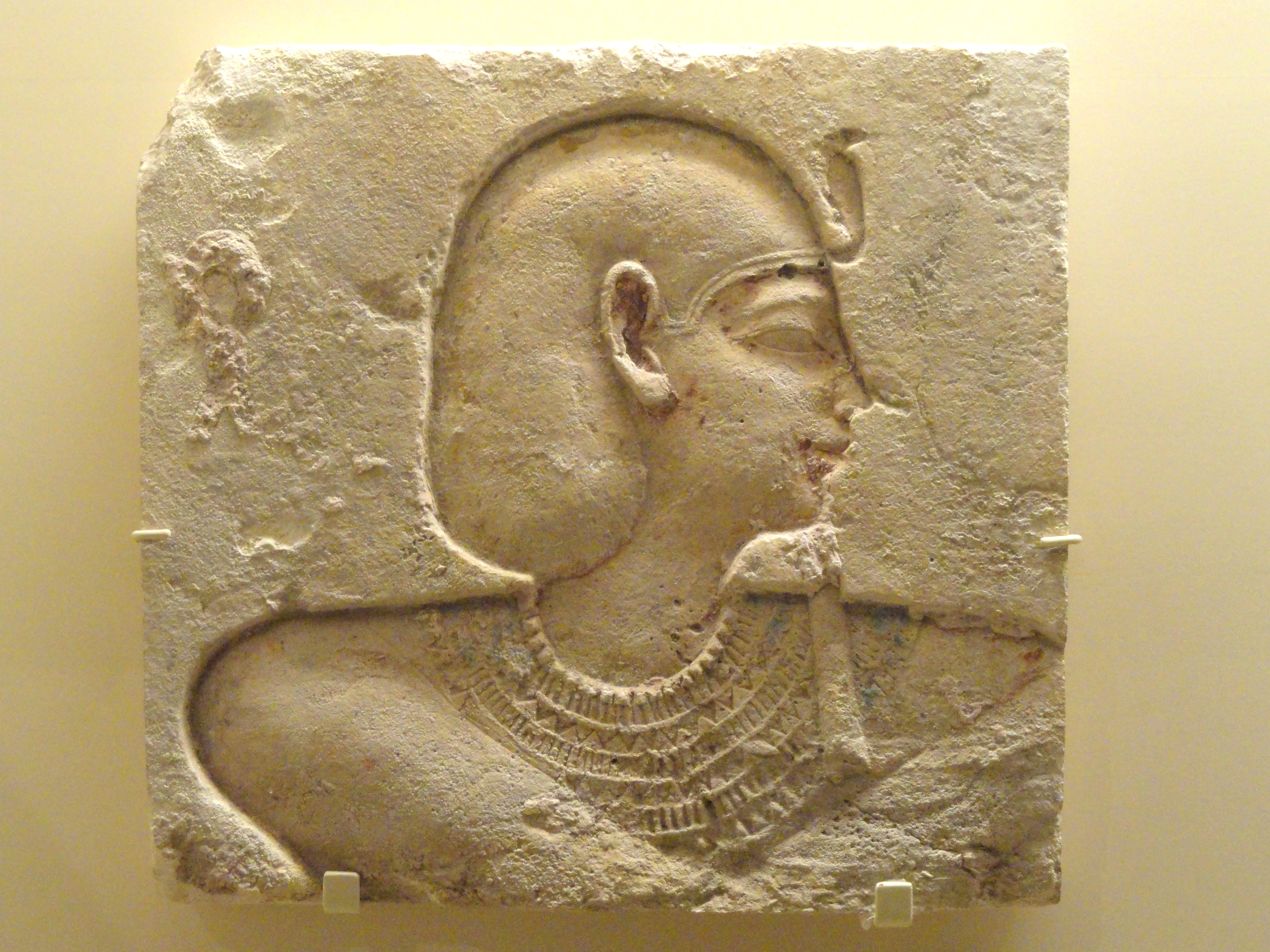 Exhibit in the Royal Ontario Museum, Toronto, Ontario, Canada. This exhibit is old enough so that it is in the public domain, and photography was permitted in the museum. I took this photograph and release it into the public domain.